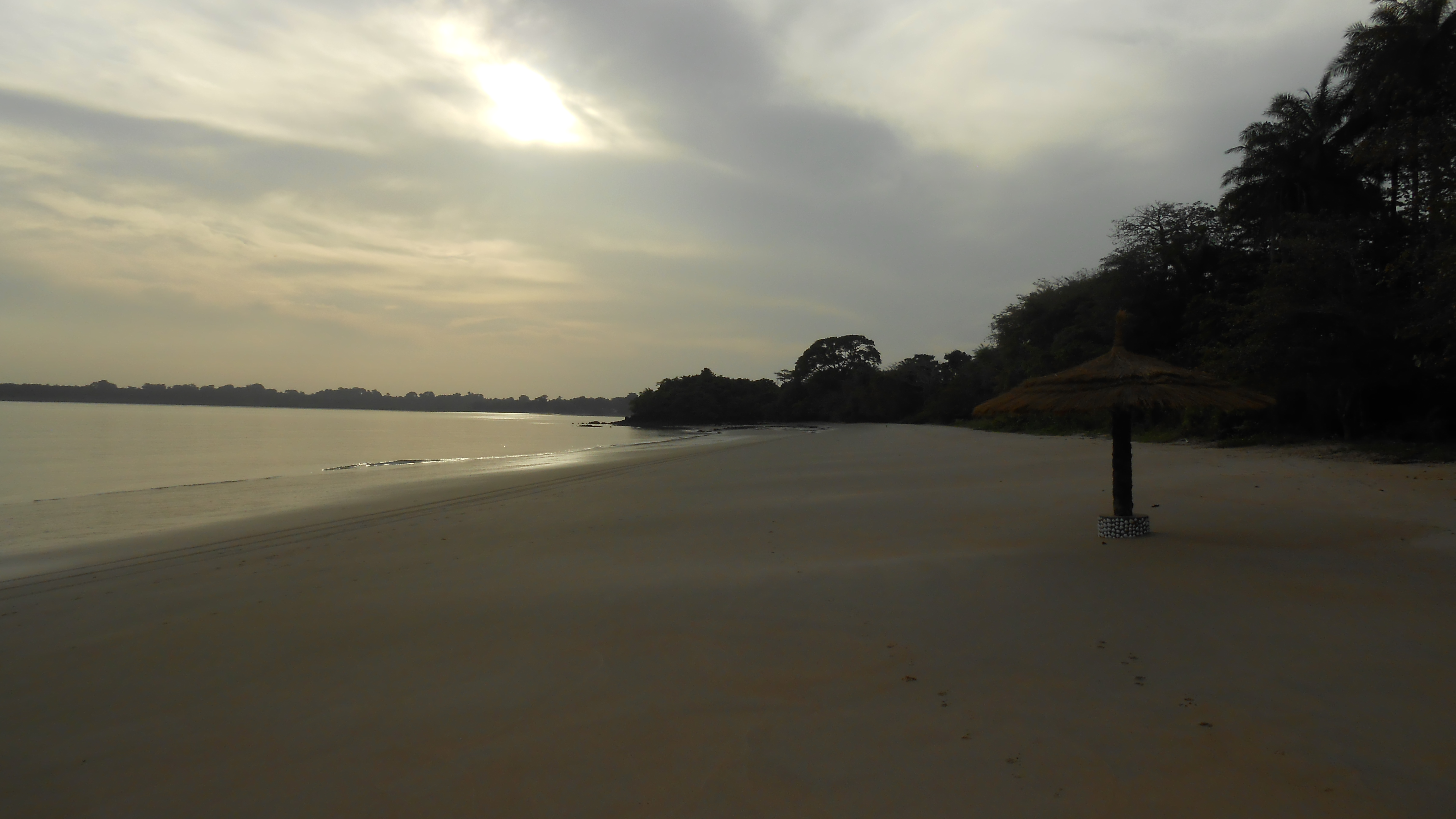 The beach at the Hotel Ecolodge Ponta Anchaca on the Rubane island in the archipelago of Bissagos Islands.